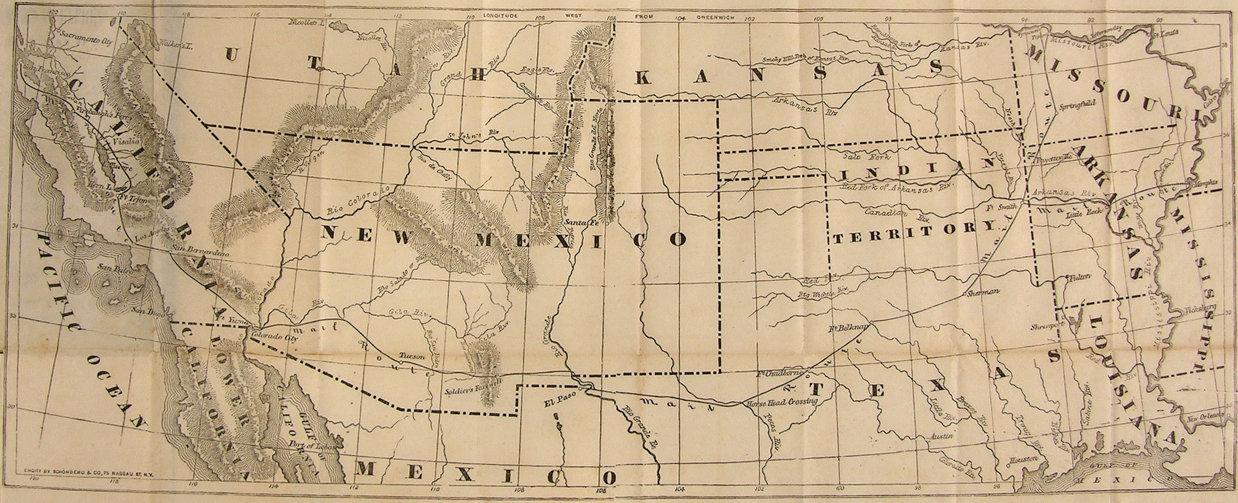 Foldout map of the Southwestern United States with territories and "Mail Route" of the Overland Mail Company contracted for $600,000 per year in 1857. Service began when the "first eastbound stagecoach departed San Francisco on September 15, 1858, and the westbound stagecoach left St. Louis a day later." The "DAILY LINE, from St.Louis to Springfield, Mo." was through Tipton, Missouri until the tbd railway was extended in 1859 along the preceding stage route to "The George Shackelford Relay and Meal Station" in Syracuse, Missouri. The "southern route" through the 1854 Gadsden Purchase region was abandoned in 1861 for the central route through the Kansas and Utah Territories (former Pony Express Route, not shown). ERRATA The serpentine line indicating an overland route between Fort Smith and Little Rock was via an Arkansas River "SEMI-WEEKLY LINE of STEAMERS carrying mail, freight, and passengers". Lake Tahoe (not labeled) is not depicted on the California/Utah territories' lines (later the California/Nevada state lines) "Wasatch Mountains" is depicted as a much larger part of the Great Basin Divide, extending from the Utah Territory, into the New Mexico T, and ending in California's Mojave Desert "Nicolette L" with the inflow "Nicolett Riv" having the same shape as the Spanish Fork River (into Utah Lake) is shown near 114 degW rather than 111 deg W "Sierra Madre NAMES Features without labels: Sevier Lake/Sevier River, Outdated names (current name displays in popup): Grand Riv., Los Angelos, Rio Colorado/San Joaquin/, Sacramento City, Walker's L., Firebaugh's Ferry